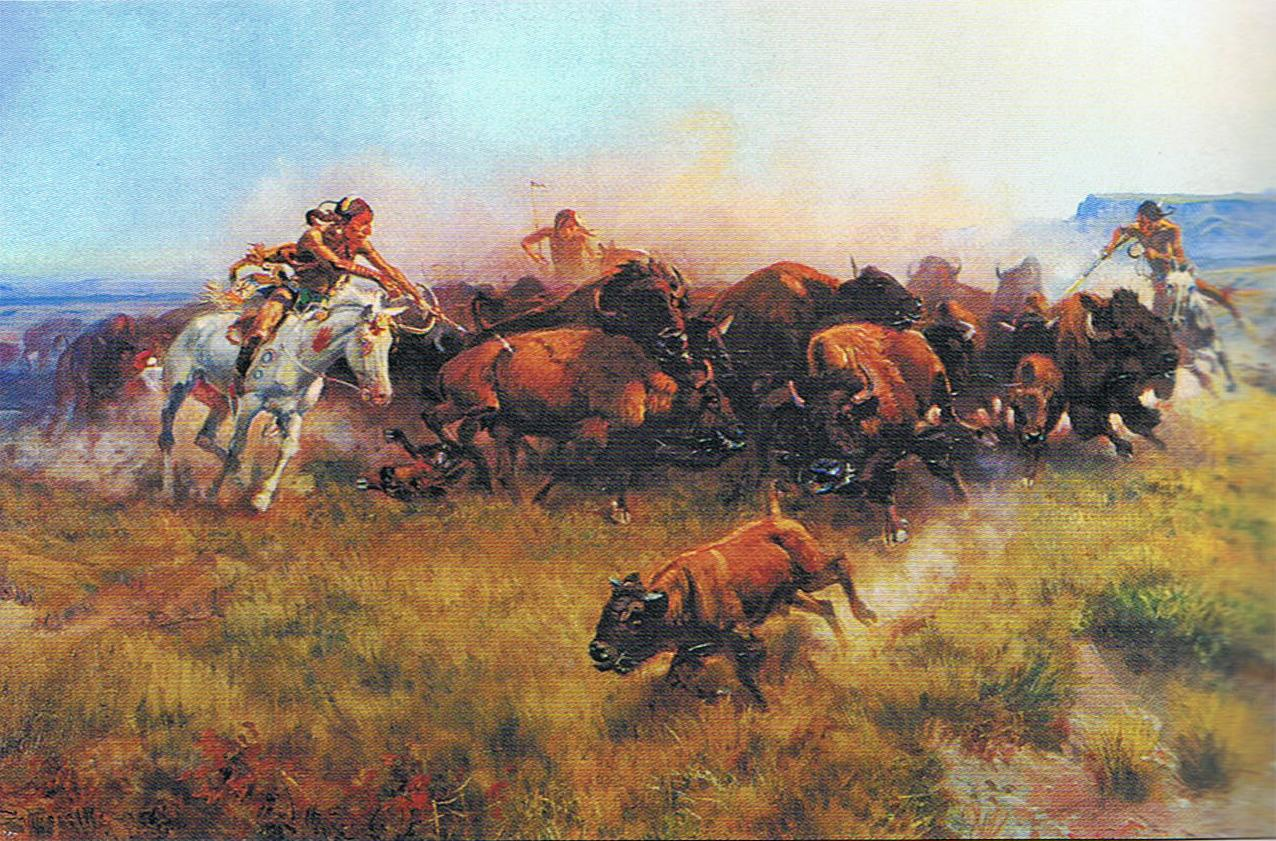 The Buffalo Hunt (number 39). See Carter Museum entry